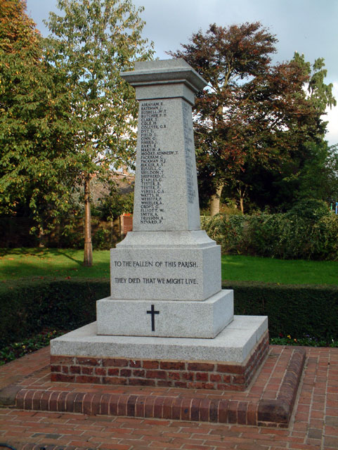 Biggin Hill War Memorial, TN16.